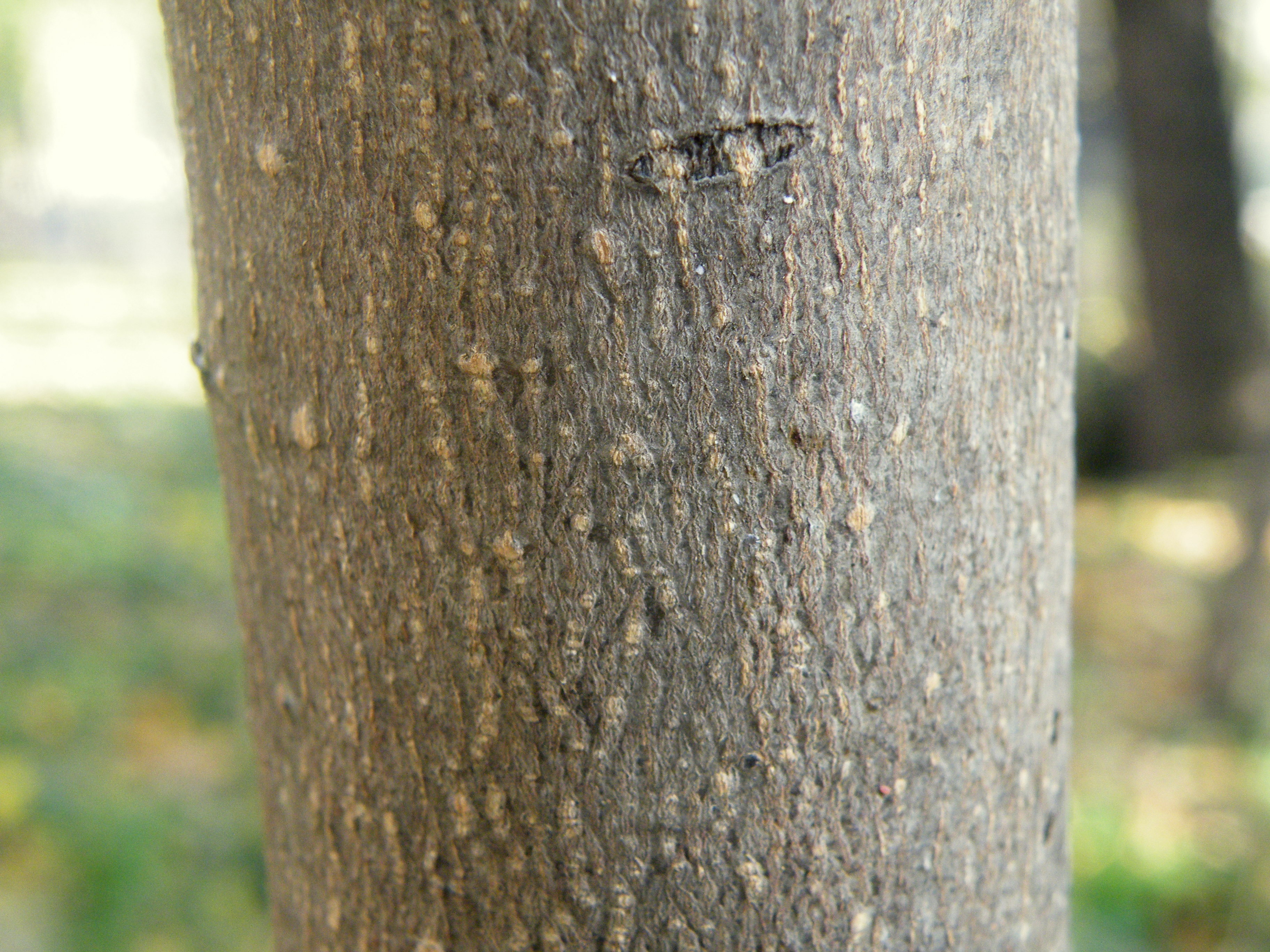 Diospyros lotus, with common names date-plum, Caucasian persimmon, or lilac persimmon, is a widely cultivated species of the genus Diospyros, native to subtropical southwest Asia and southeast Europe. Its English name derives from the small fruit, which have a taste reminiscent of both plums and dates. It is among the oldest plants in cultivation. This media file is produced by Wikipedian in Residence in Botanical Garden Jevremovac in 2015.